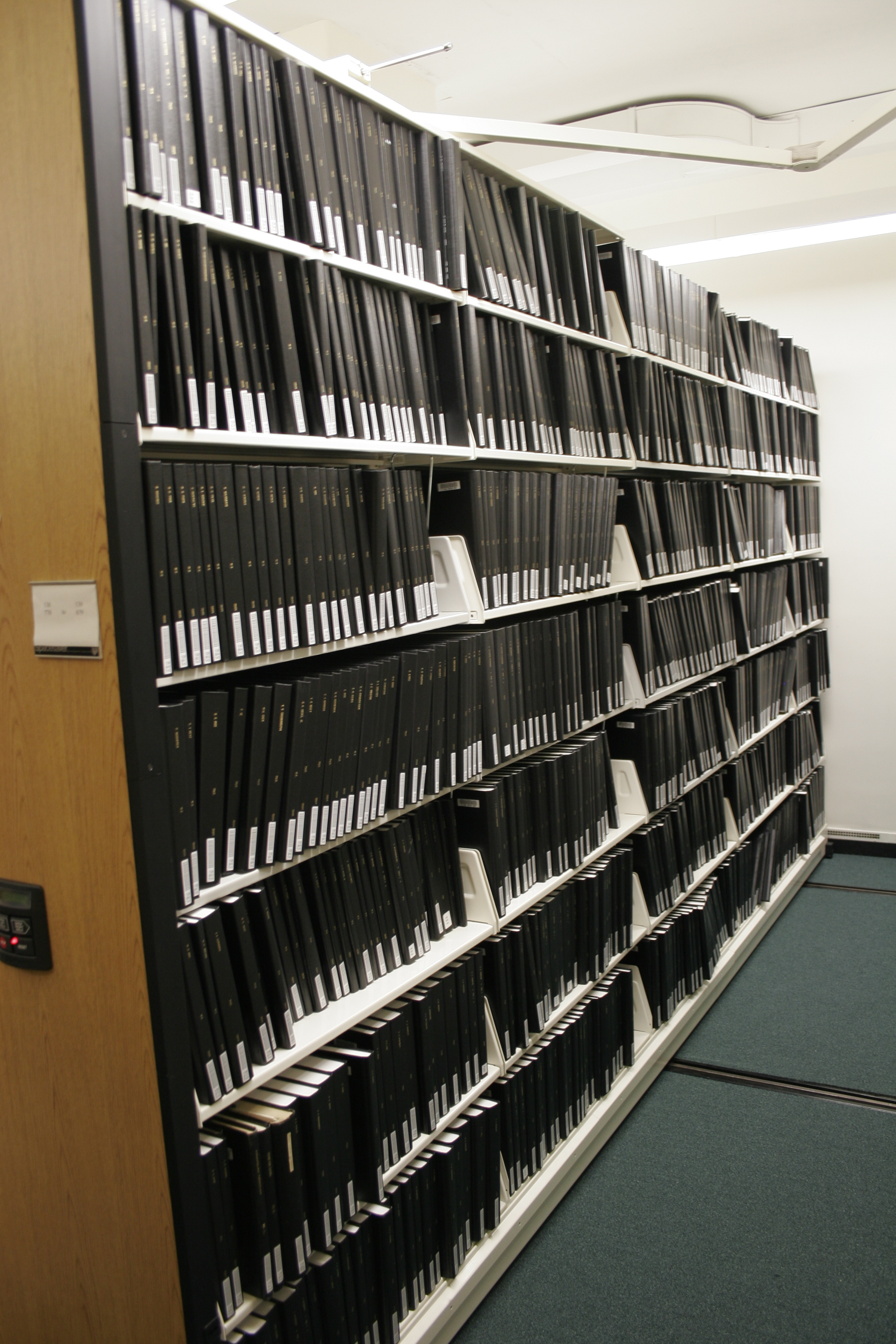 Michigan State University Libraries Basement book Stacks. I took this photo on Oct 21, 2007.